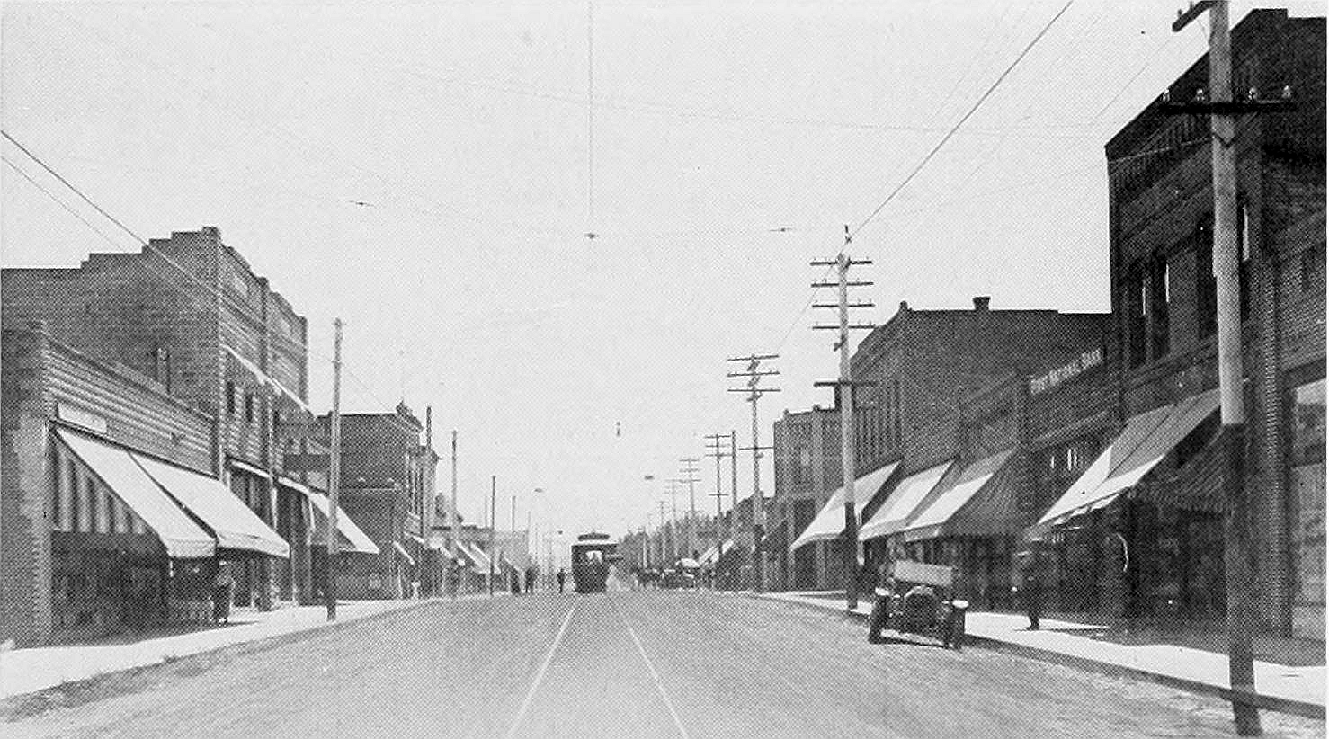 Main Street looking south, Clarkston, Washington (1918)